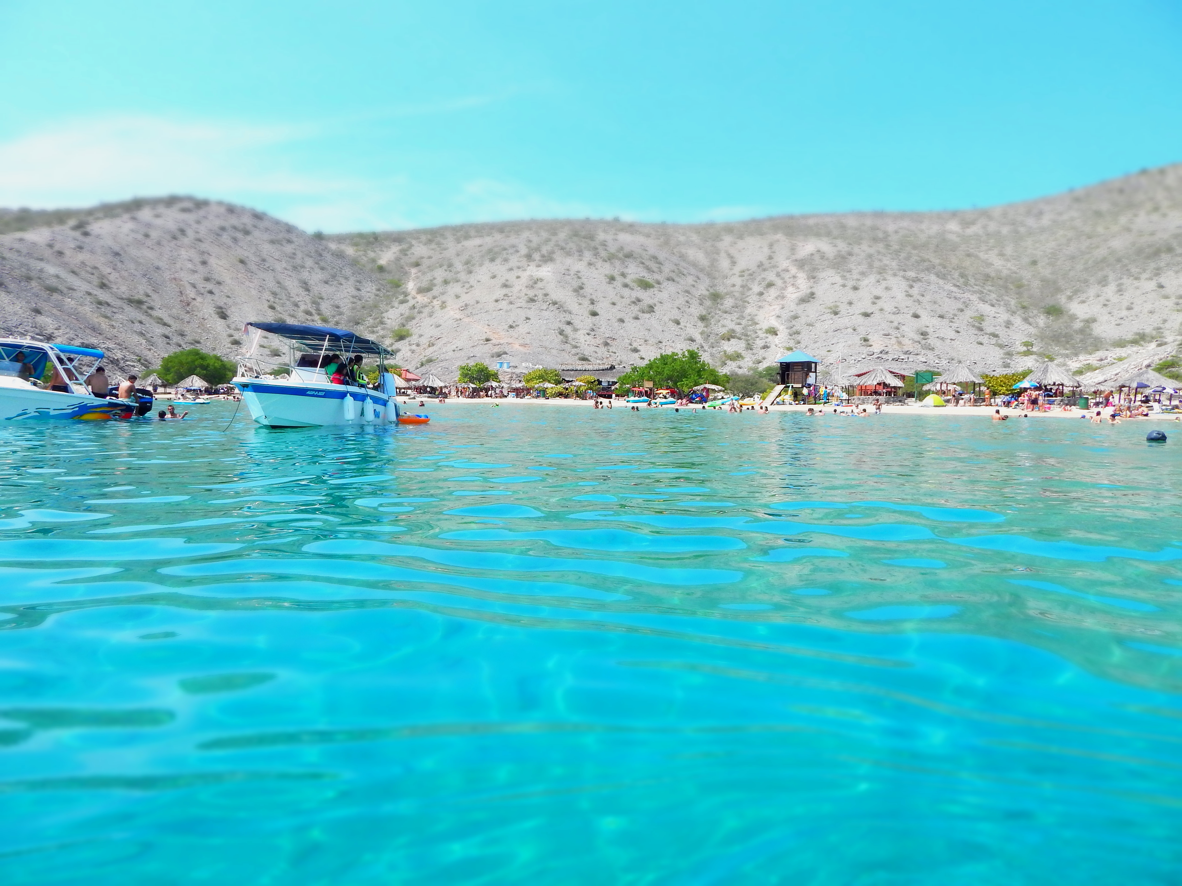 Puinare Beach, Chimana Grande Island, Anzoategui State, Venezuela